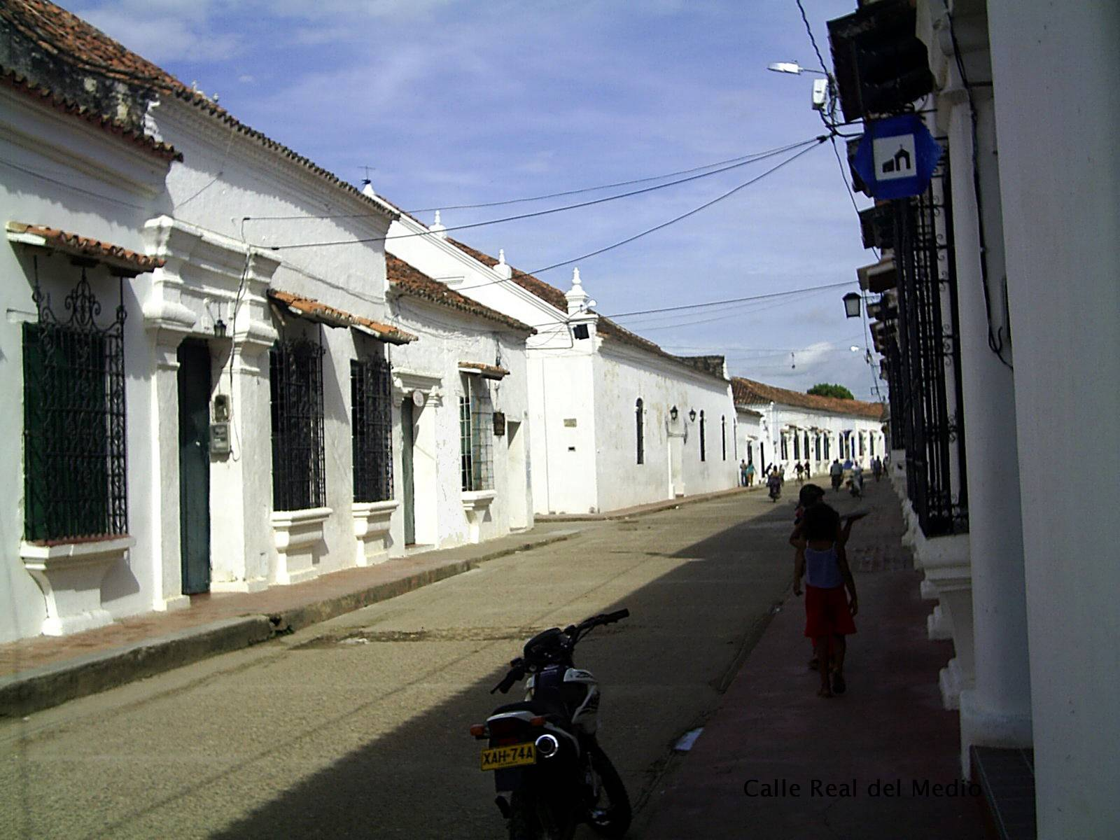 Mompox's street